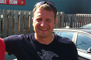 Photo taken by myself of Lee Martin following the Manchester United Legends Vs. Liverpool Legends game on July 6 2013 at Spiers and Hartwell Jubilee Stadium.